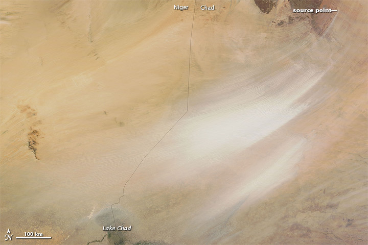 To download the full resolution and other files go to: In the southern Sahara Desert, a gap between mountain ranges makes for a natural wind tunnel. Situated within this wind tunnel, Chad’s Bodele Depression is the site of frequent dust storms. In early December 2011, dust plumes blew out of the depression toward the southwest. The Moderate Resolution Imaging Spectroradiometer (MODIS) on NASA’s Terra satellite captured this natural-color image on December 9, 2011. The pale dust plumes are easy to spot against the darker tan background of the southern Sahara. The plumes generally arise from discrete points (image upper right). The dust blew in the direction of Lake Chad, which has dwindled in recent decades. While some of the dust may settle there, particles from the Bodele Depression can travel much farther—sometimes across the Atlantic Ocean. A study published in 2006 found that regular helpings of Bodele dust have fertilized Amazon forests. NASA image courtesy LANCE/EOSDIS MODIS Rapid Response Team at NASA GSFC. Caption by Michon Scott. The Earth Observatory's mission is to share with the public the images, stories, and discoveries about climate and the environment that emerge from NASA research, including its satellite missions, in-the-field research, and climate models. Like us on Facebook Follow us on Twitter Add us to your circles on Google+